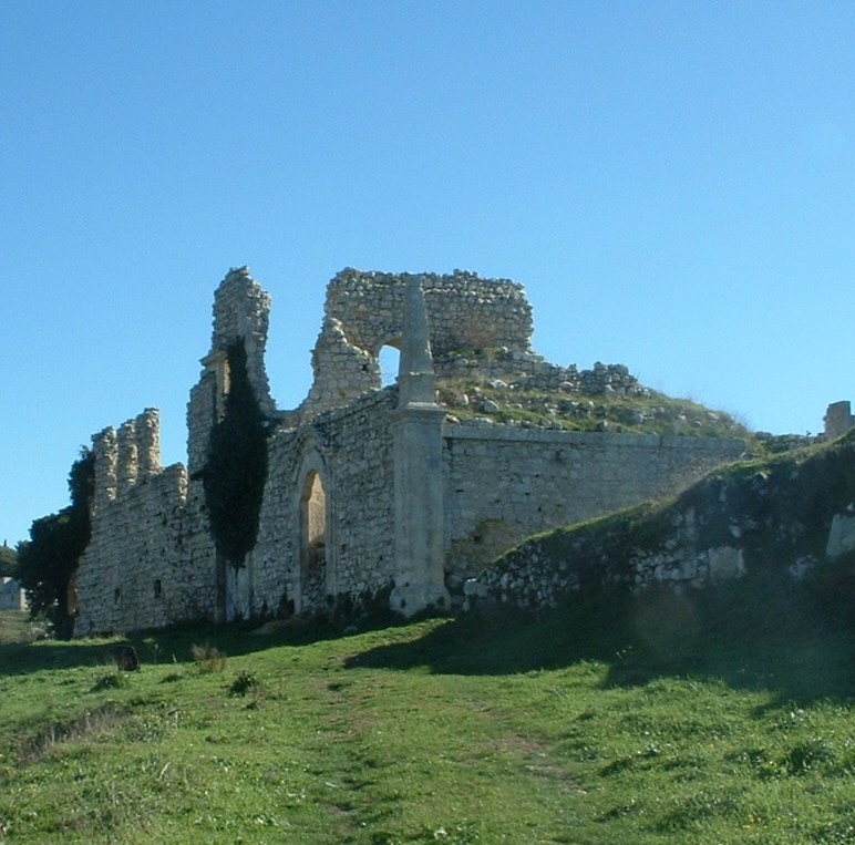 Buscemi (SR), the castle.